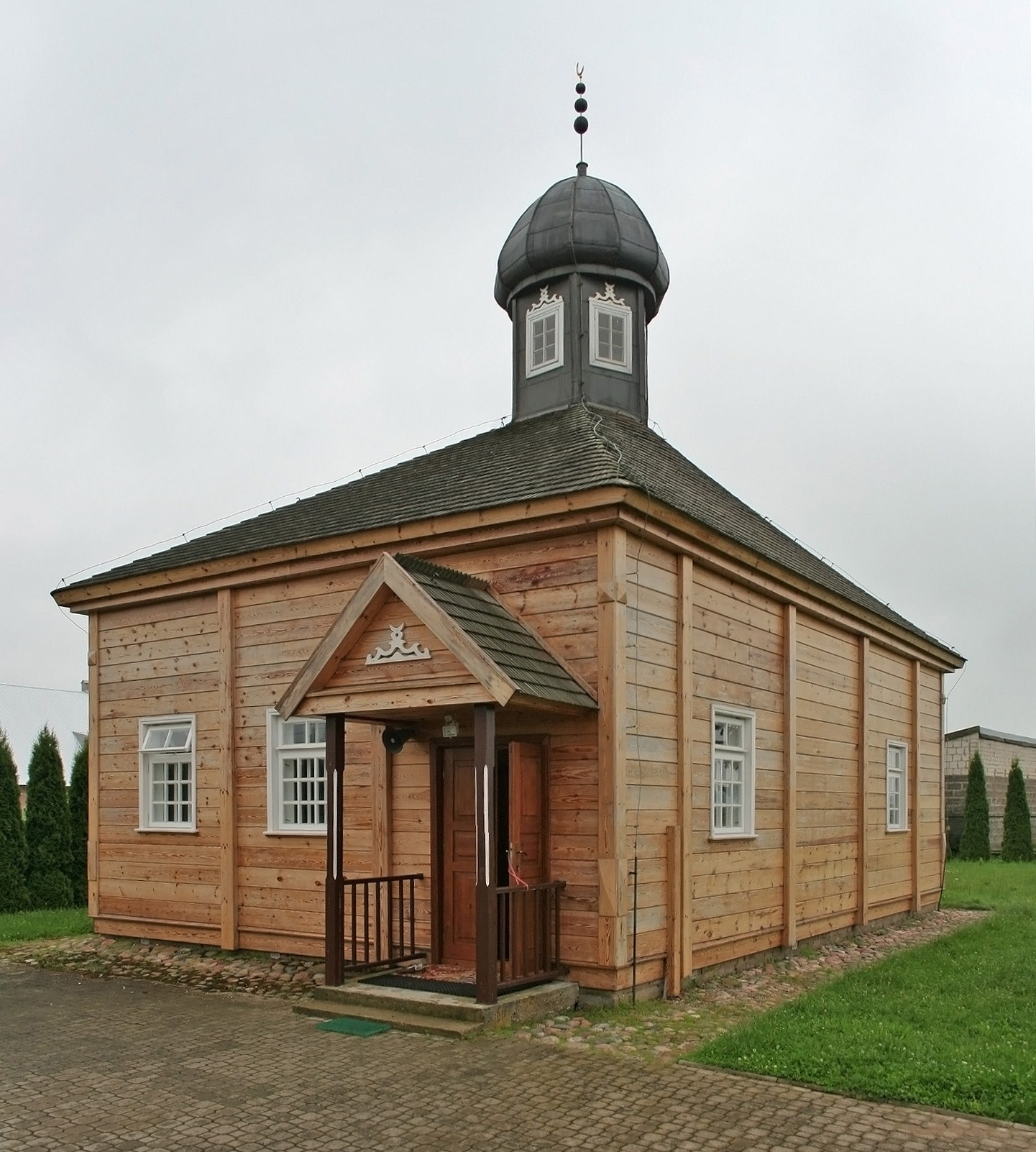 Mosque in Bohoniki.